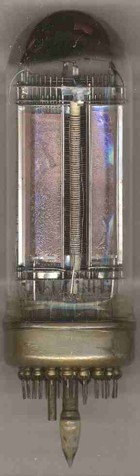 Photo of the prototype 4096-bit RCA Selectron Tube.